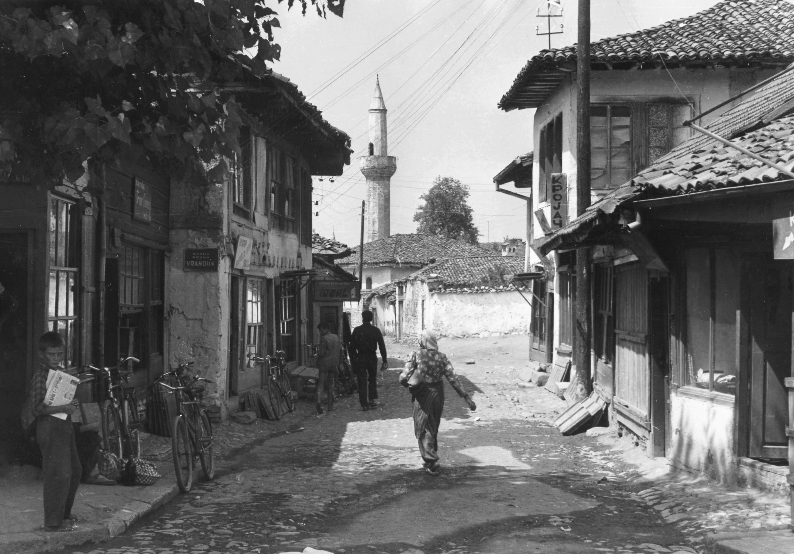 Street in Peć